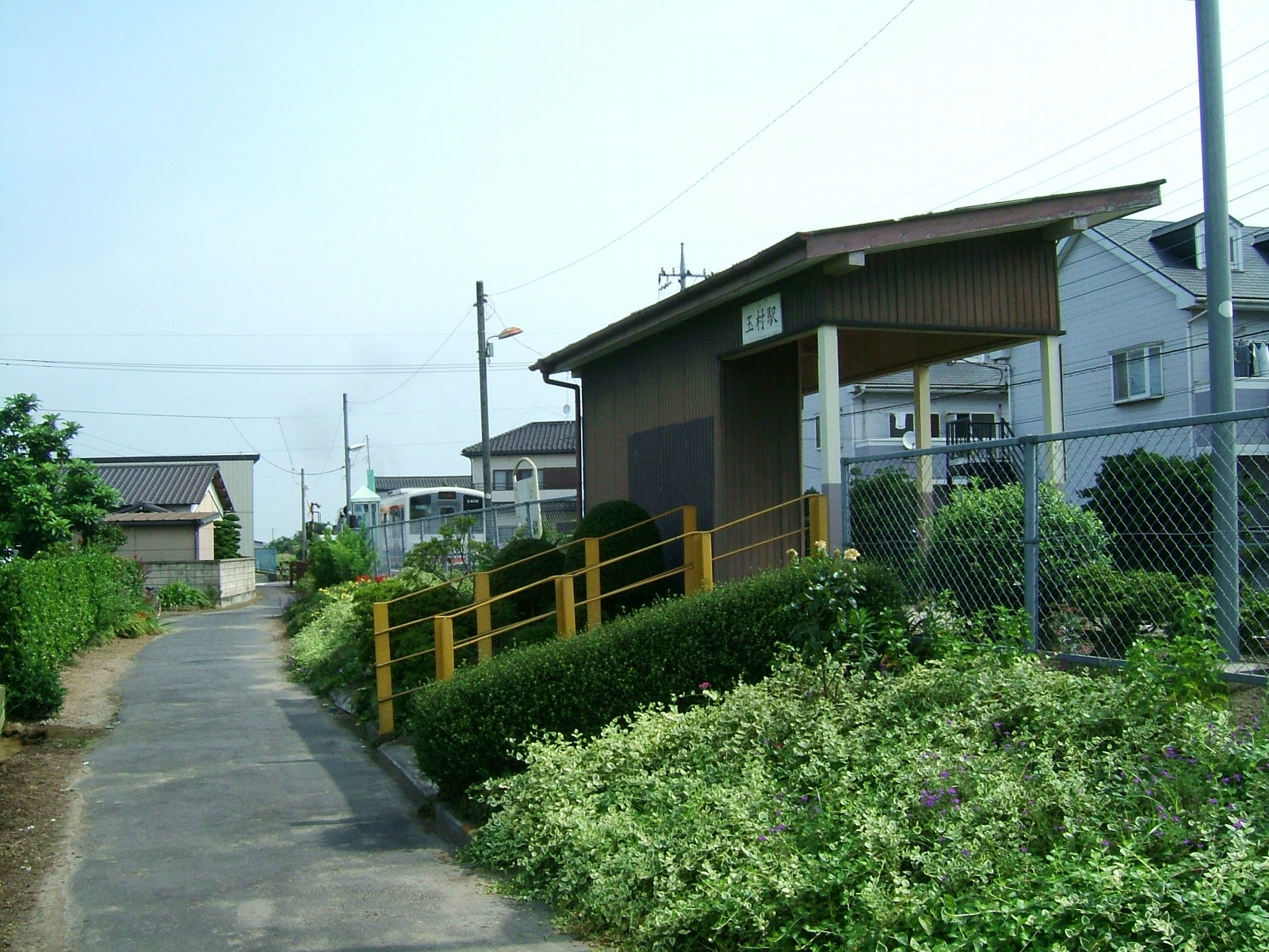 Tamamura Station entrance (Kanto Railway Jōsō Line)